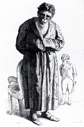 A cartoon of Geoffroy as an ape (supposedly an Orang-utan) with Cuvier in background